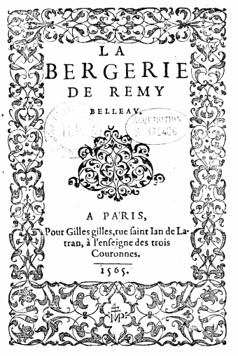 title page of: Rémy Belleau, La bergerie (Texte en moyen français), Paris, G. Gilles, 1565, 127 p. ; in-8 (notice BnF no FRBNF30079761)